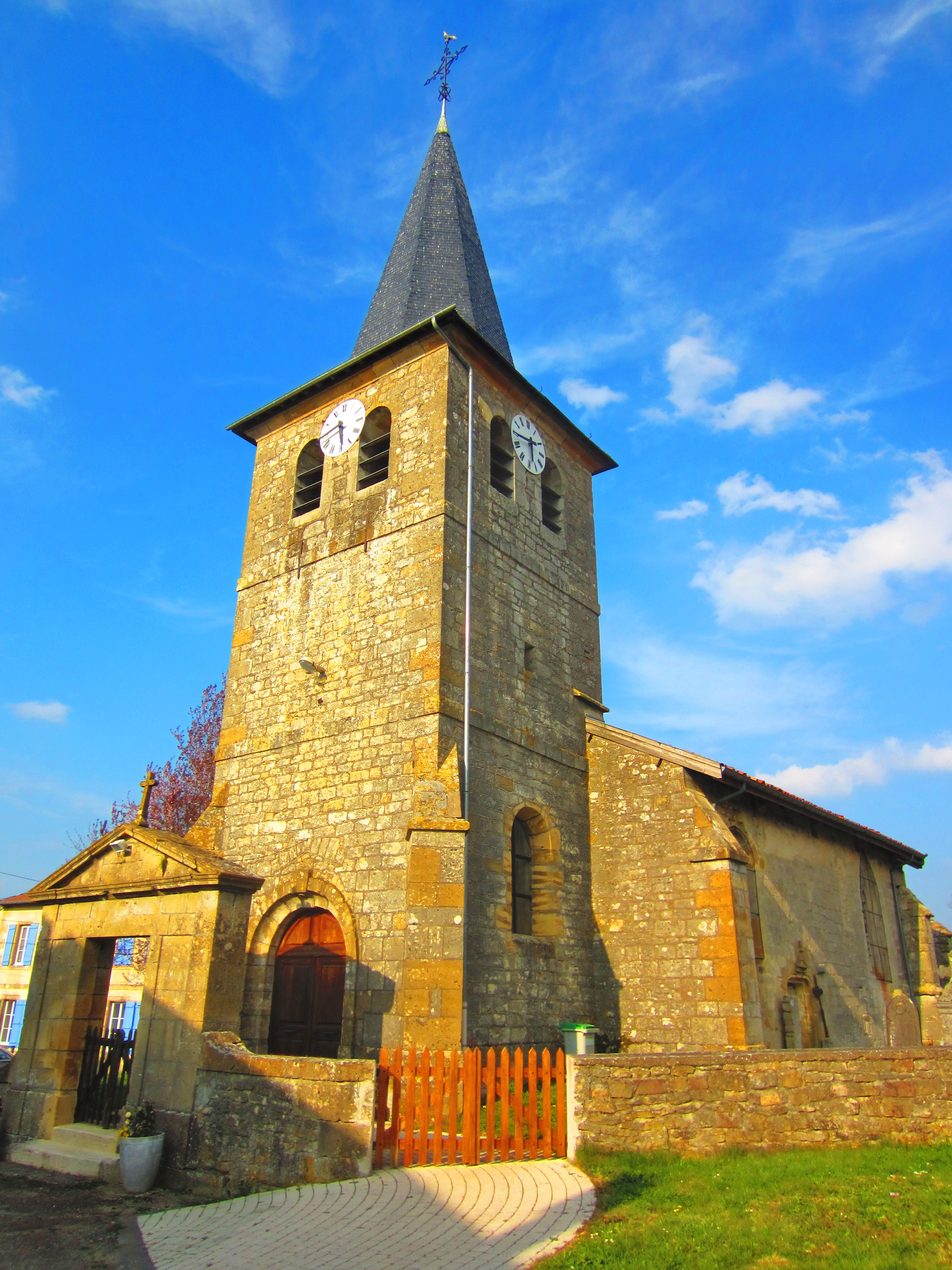 Peuvillers church